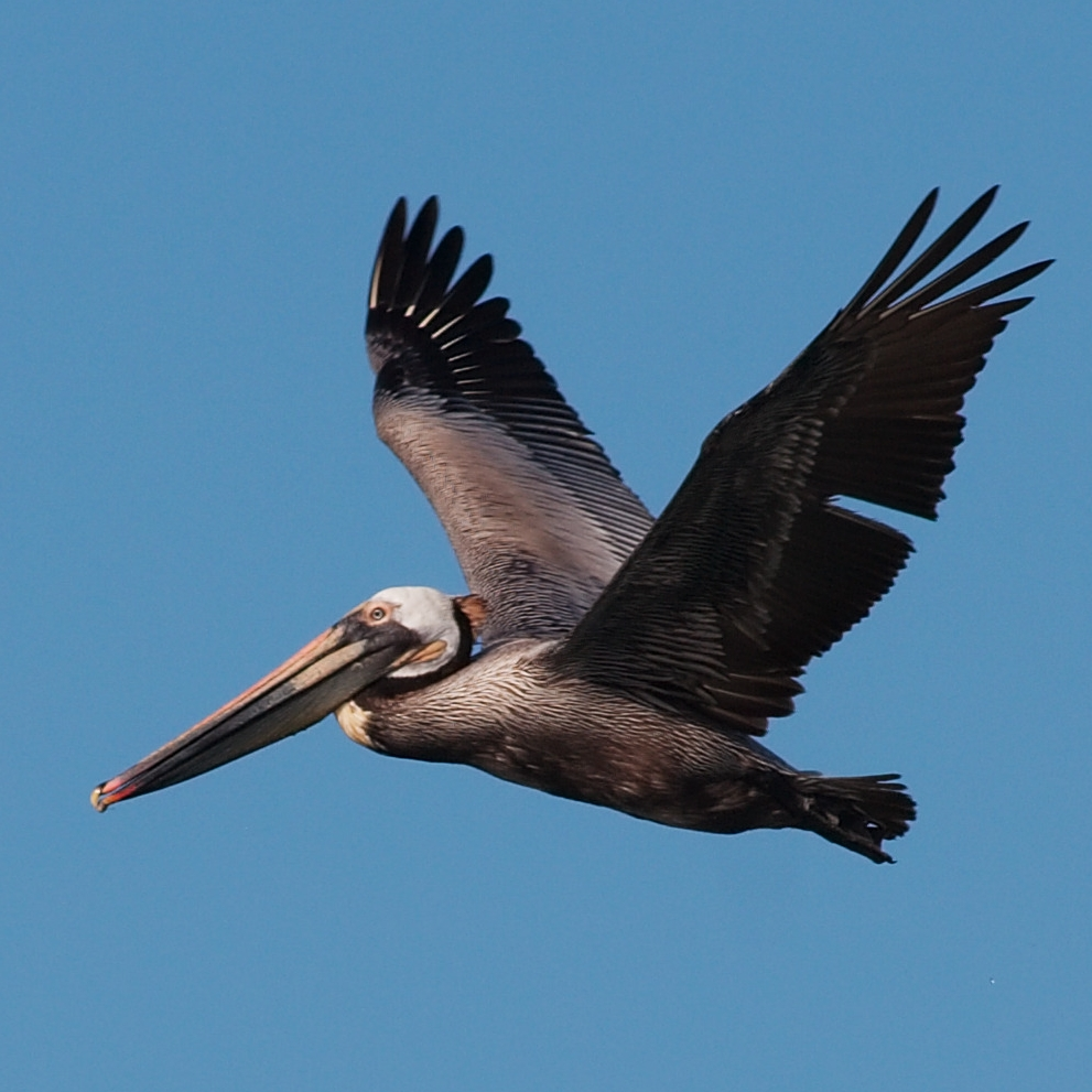 A brown pelican (Pelecanus occidentalis), in Santa Barbara, California